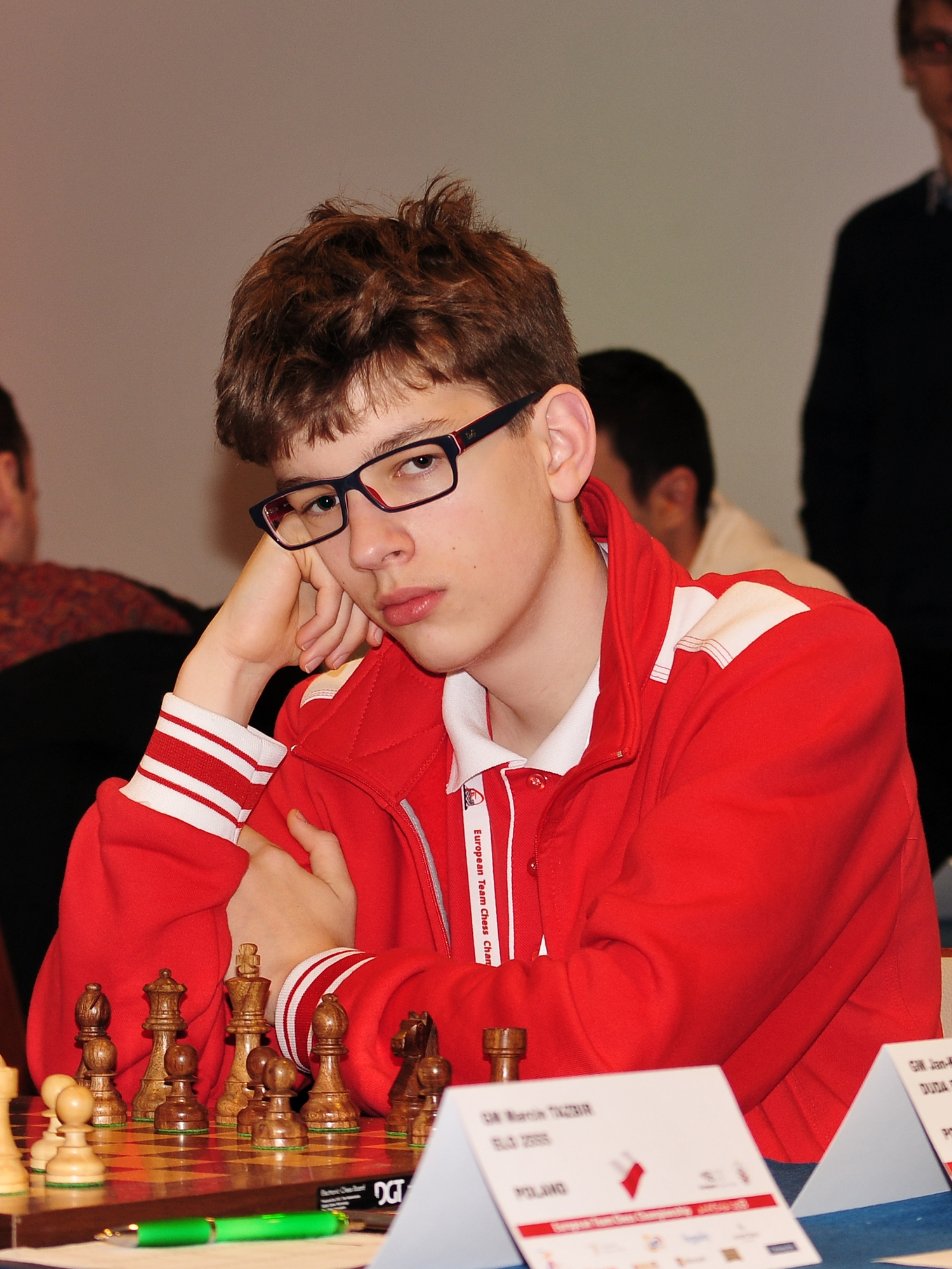 GM Jan-Krzysztof Duda, European Chess Team Championship Warsaw 2013